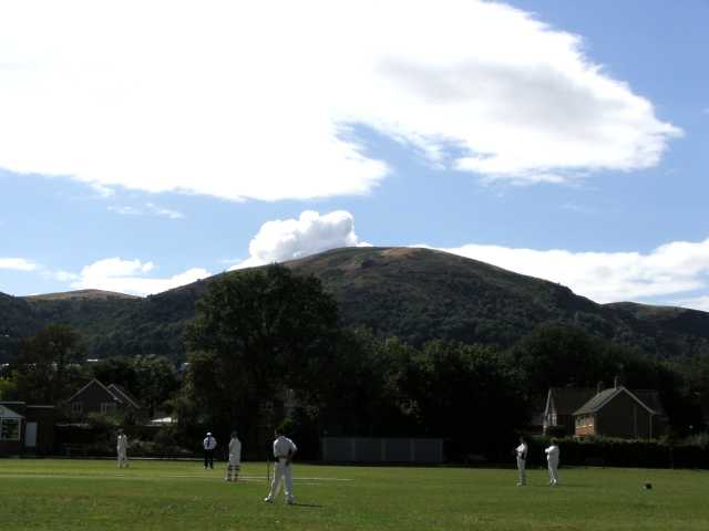 Barnards Green Cricket Club with the Malvern Hills in the background. Picture courtesy Dave Price.